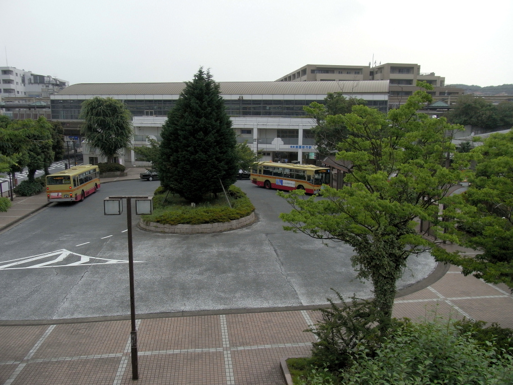 Ryokuen-toshi is a station of Sagami Railway in Japan. The platforms are at the 3rd floor. This is the east station square used as the bus terminal.